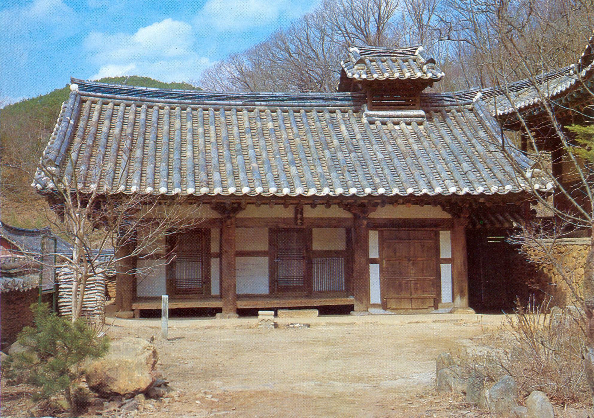 Hasadang Hall at Songgwangsa temple in Suncheon, Korea